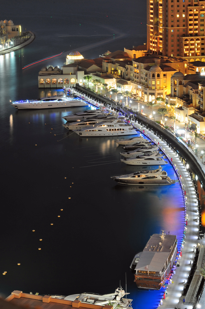 The Peal Qatar, March 19, 2011.